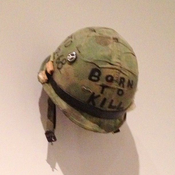 Helmet from the film Full Metal Jacket. Stanley Kubrick exhibit at Los Angeles County Museum of Art